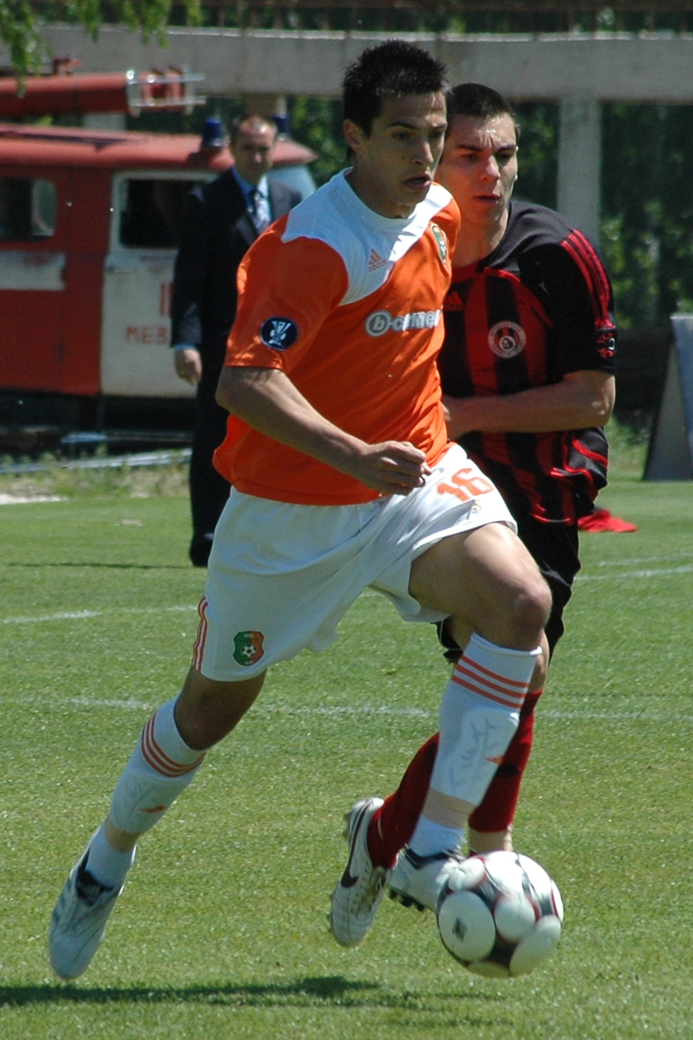 Stanislav Manolev and Filip Filipov